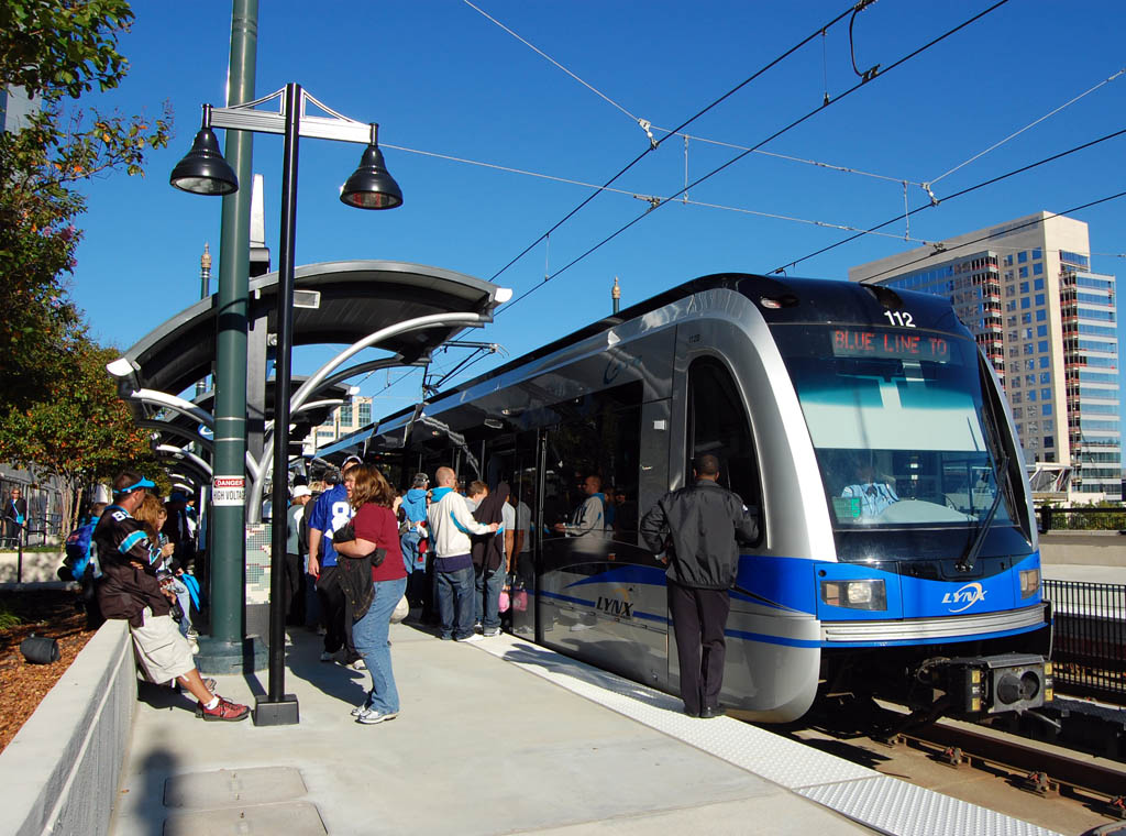 LYNX Stonewall Station